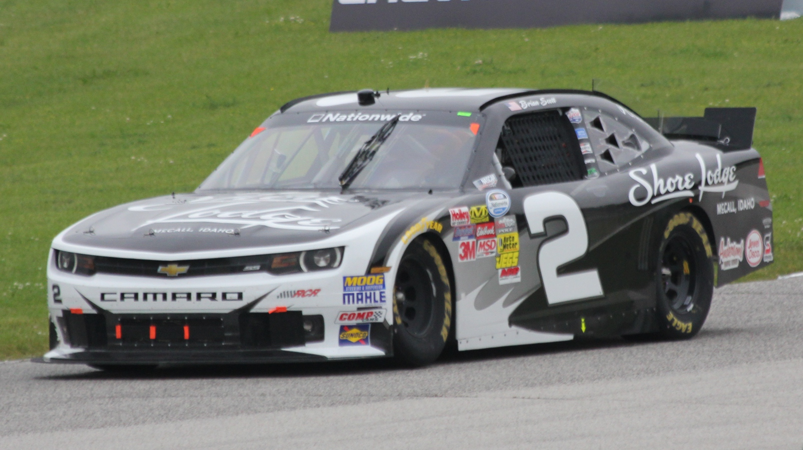 The driver's side of Brian Scott Nationwide car during the 2014 Gardner Denver 200 at Road America. Taken racing up the hill between turns 5 and 6.